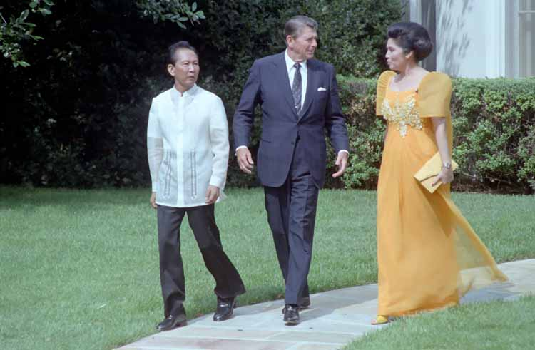 C10079-9A, President Reagan with President of the Philippines Ferdinand Marcos and Imelda Marcos during a state visit outside the Oval Office.